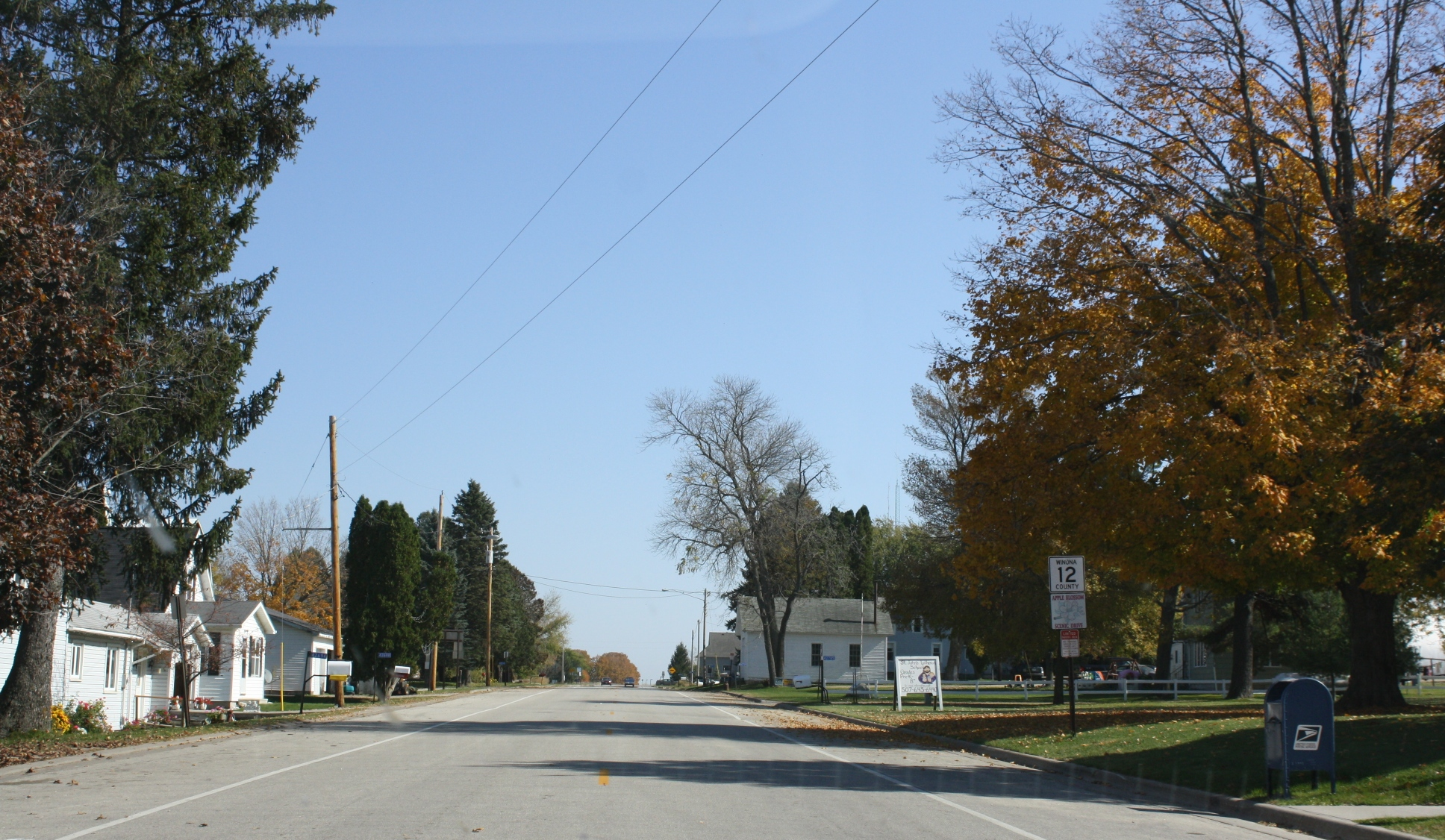 Looking east in downtown Nodine, Minnesota.